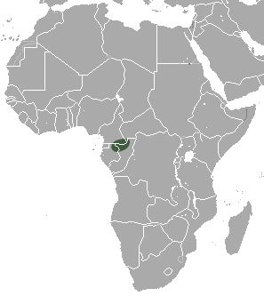 Remy's Pygmy Shrew (Suncus remyi) range